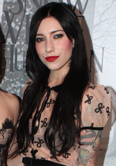 Jessica Origliasso at the Snow White and the Huntsman movie premiere - Bondi Junction, Sydney Australia 2012.